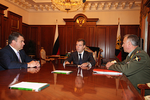 THE KREMLIN, MOSCOW. With Defence Minister Anatoly Serdyukov (left) and chief of Armed Forces General Staff Nikolai Makarov.